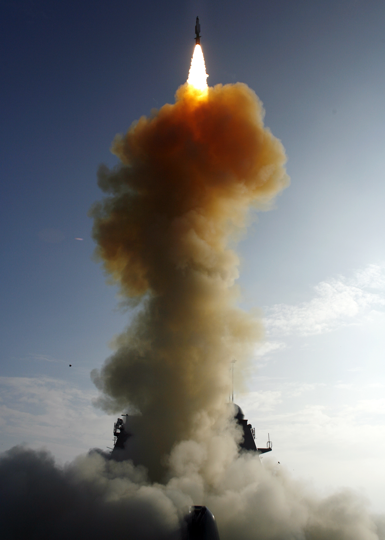 SM-3 just after launch to destroy the NRO-L 21 satellite